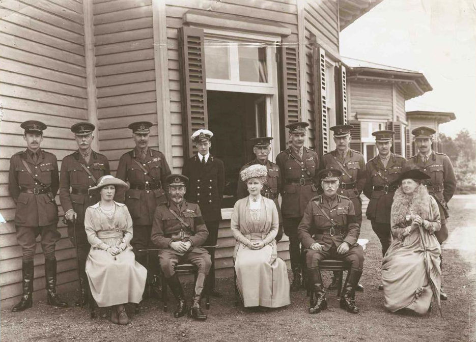 Postcard of the Royal Family and senior military figures at the Royal Pavilion in Aldershot